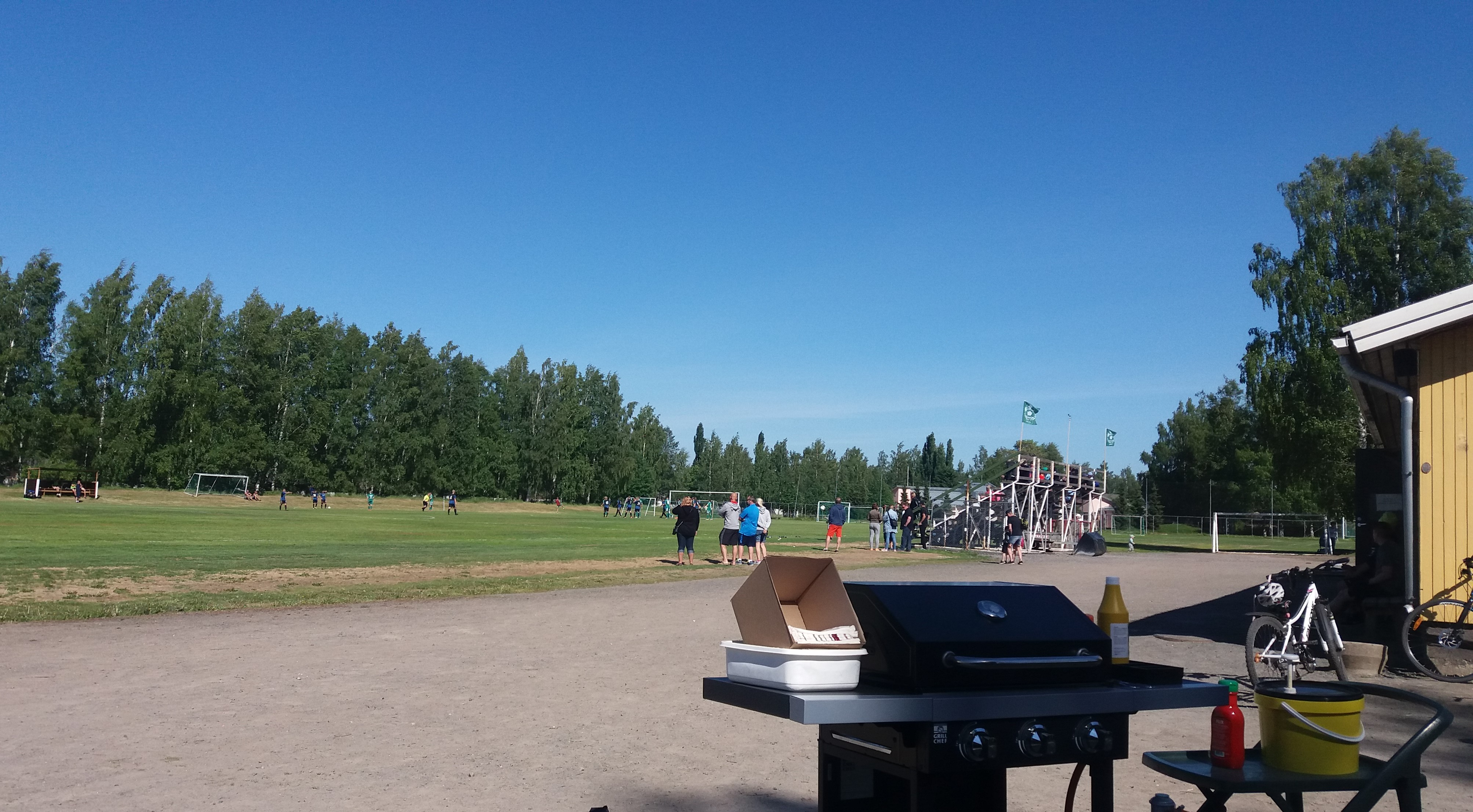 Toejoki football ground, Pori, Finland.